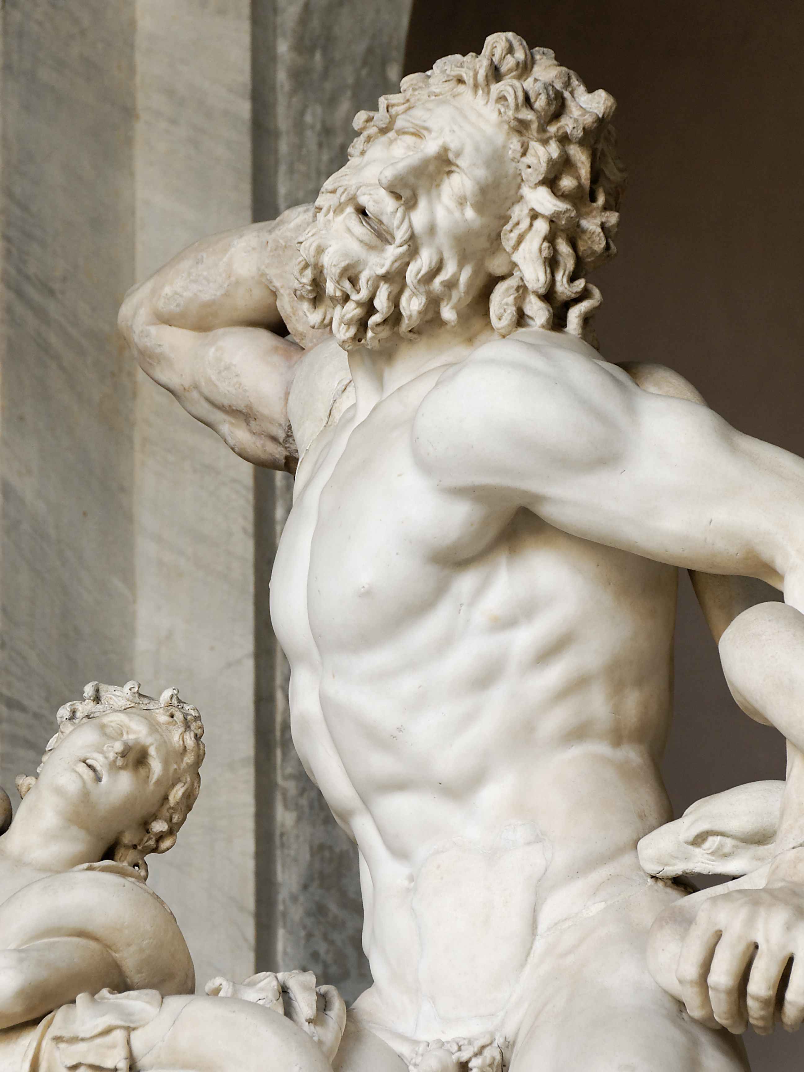 Laocoön and his sons, also known as the Laocoön Group. Marble, copy after an Hellenistic original from ca. 200 BC.